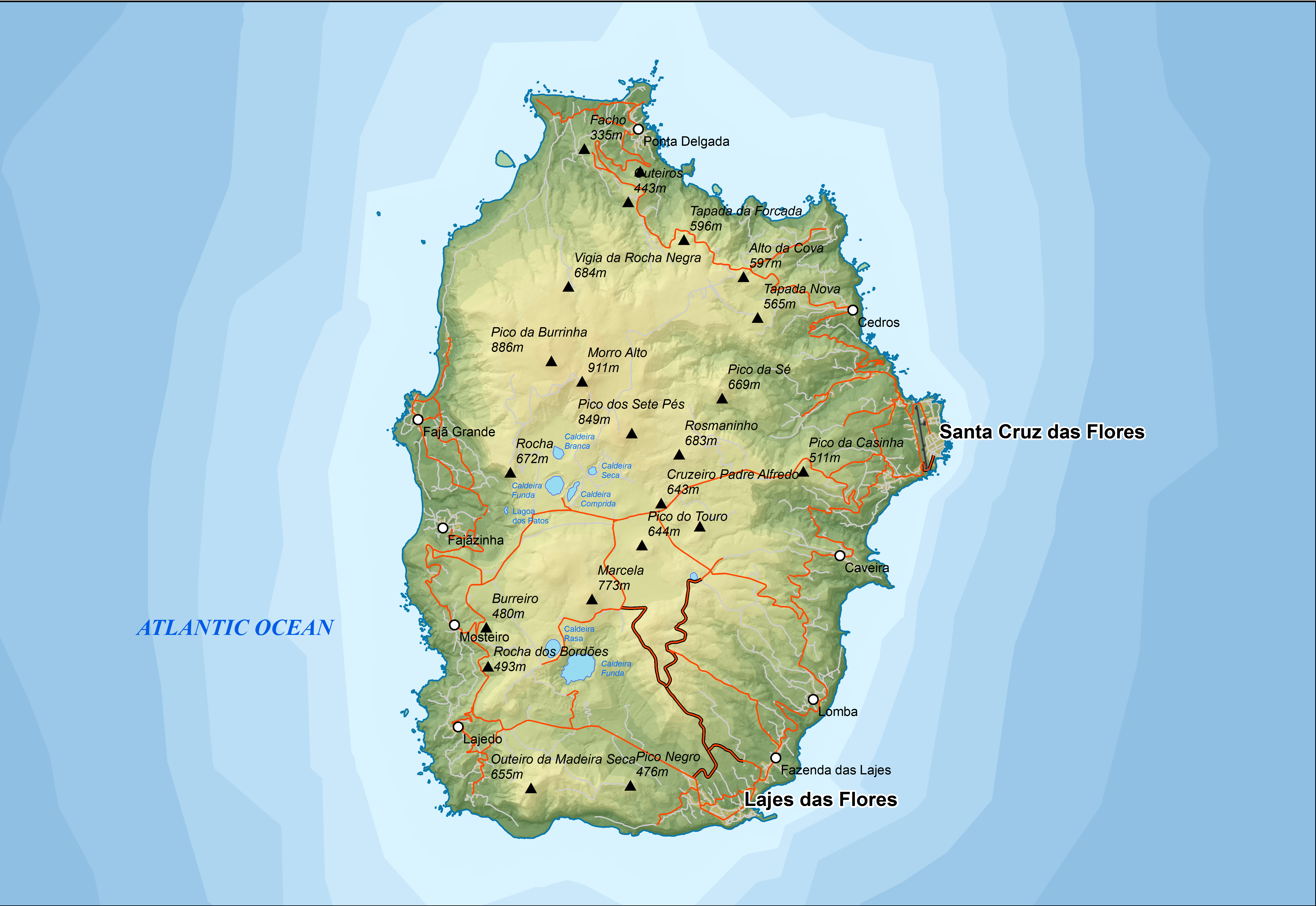 Area map of the island of Flores, Azores